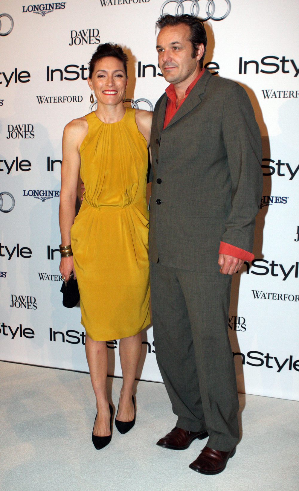 Claudia Karvan with Jeremy Sparks